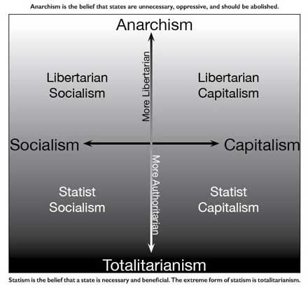 Liberty-Authority x Propertarianism-Antipropertarianism